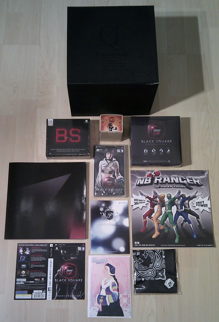 DJMAX Portable Black Square Quattra Limited Edition Package and all of it's contents laid out on a floor.